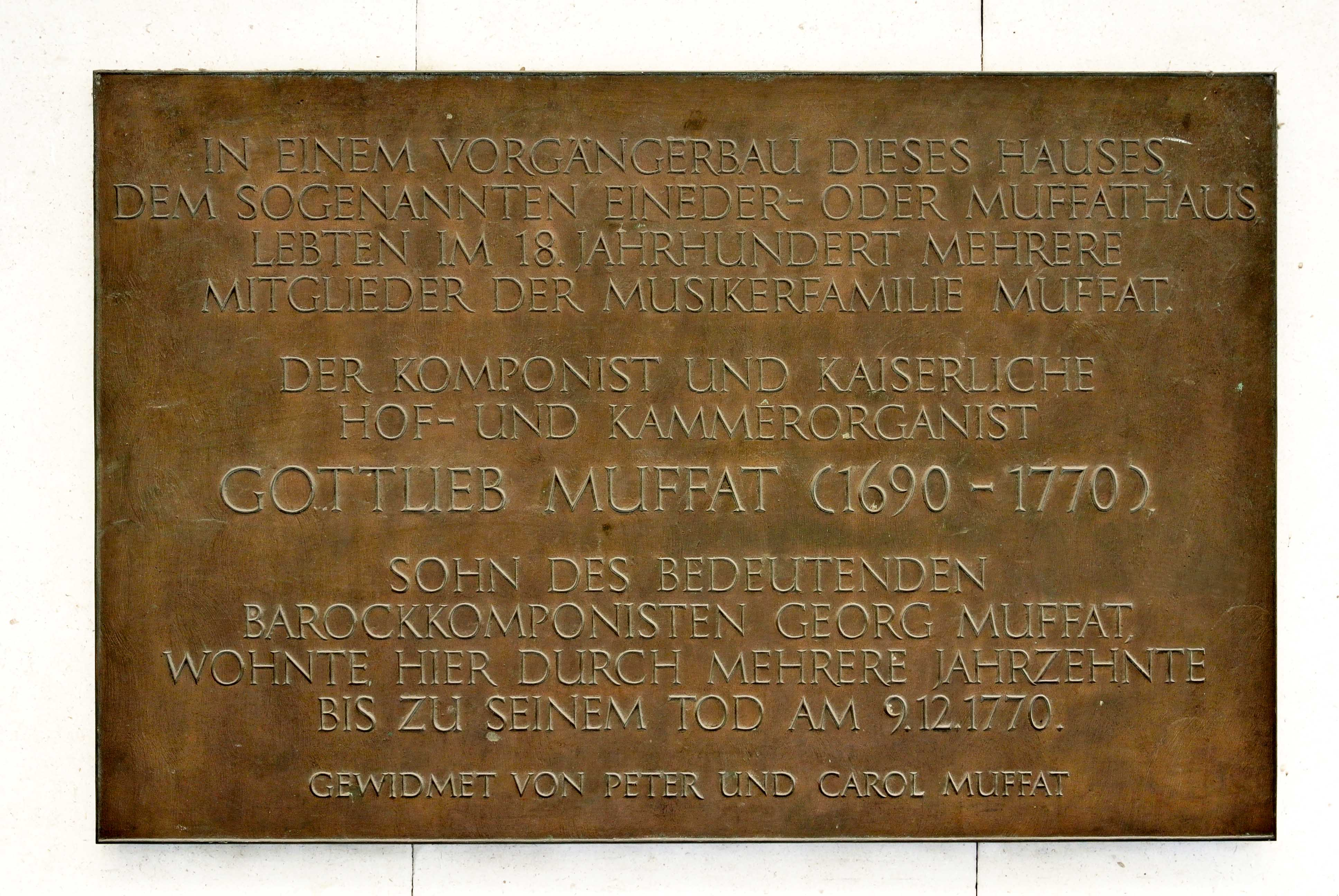 Gottlieb (Liebgott) Muffat (born christened 25 April 1690 in Passau; died December 9, 1770 in Vienna) was an Austrian organist and composer. Plaque: Vienna 1.,, Weihburggasse 2, Kärntnerstrasse 13.